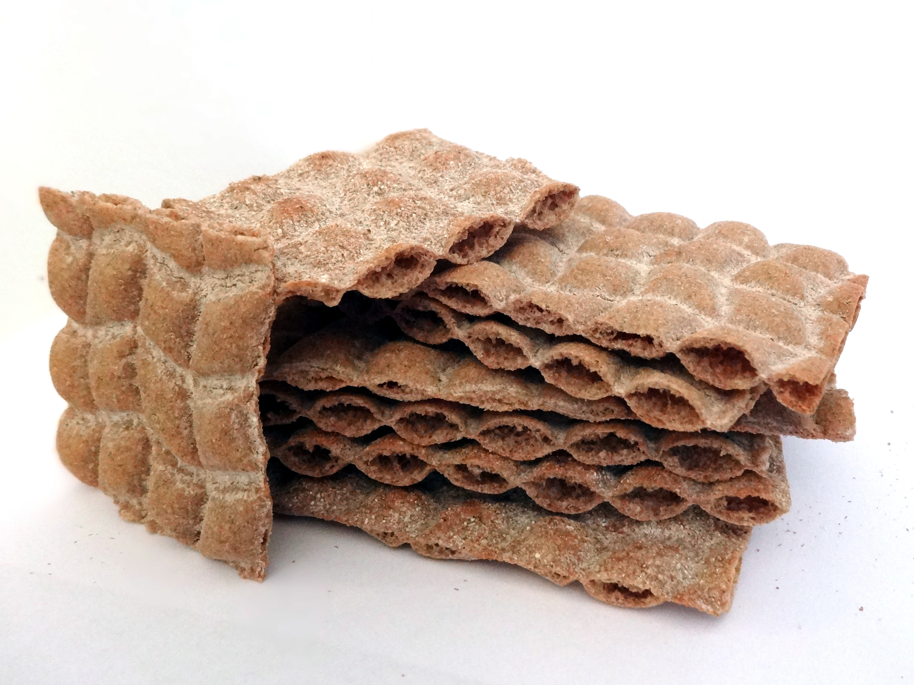 Falu råg-rut, a brand of Swedish crisp berad.